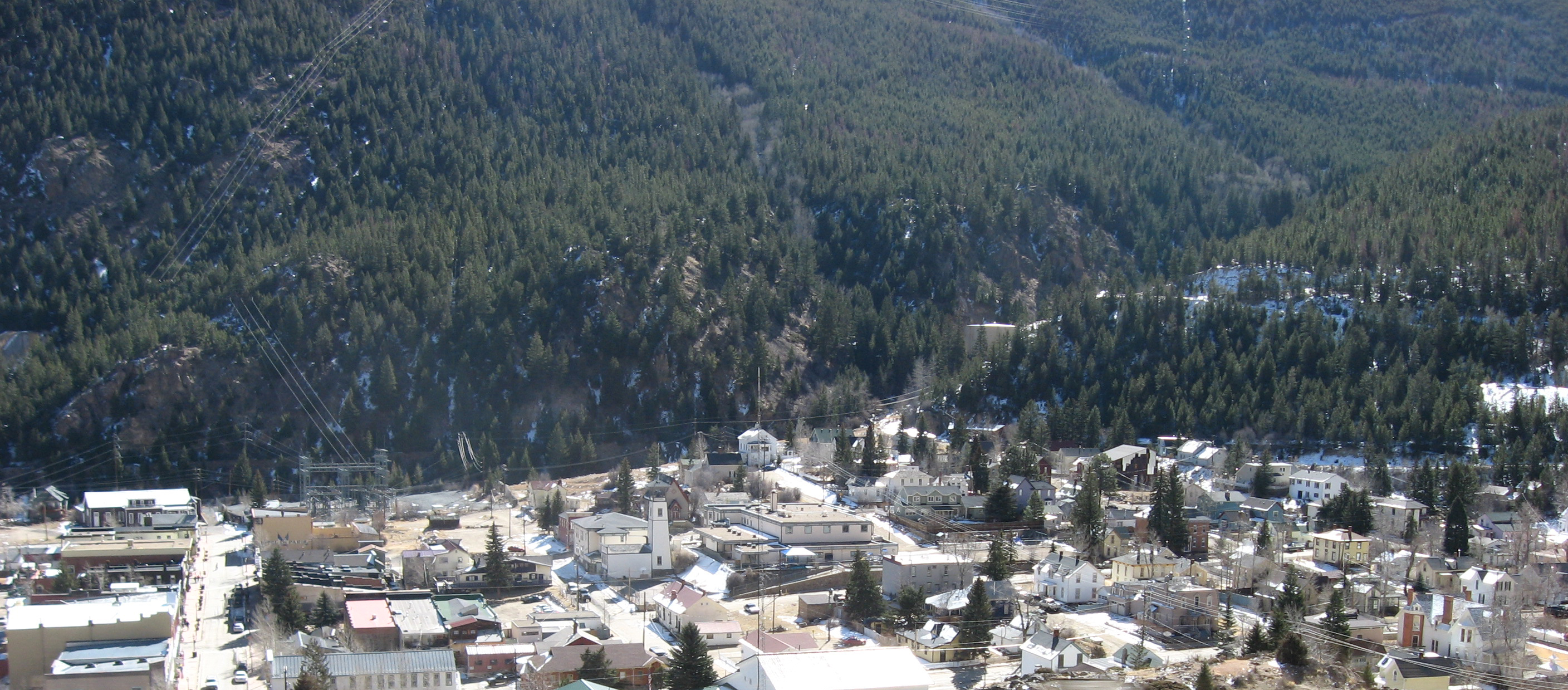 Buildings in Georgetown, Colorado, United States included in the Georgetown-Silver Plume Historic District, a National Historic Landmark. Picture taken looking southward from the eastbound lanes of Interstate 70.